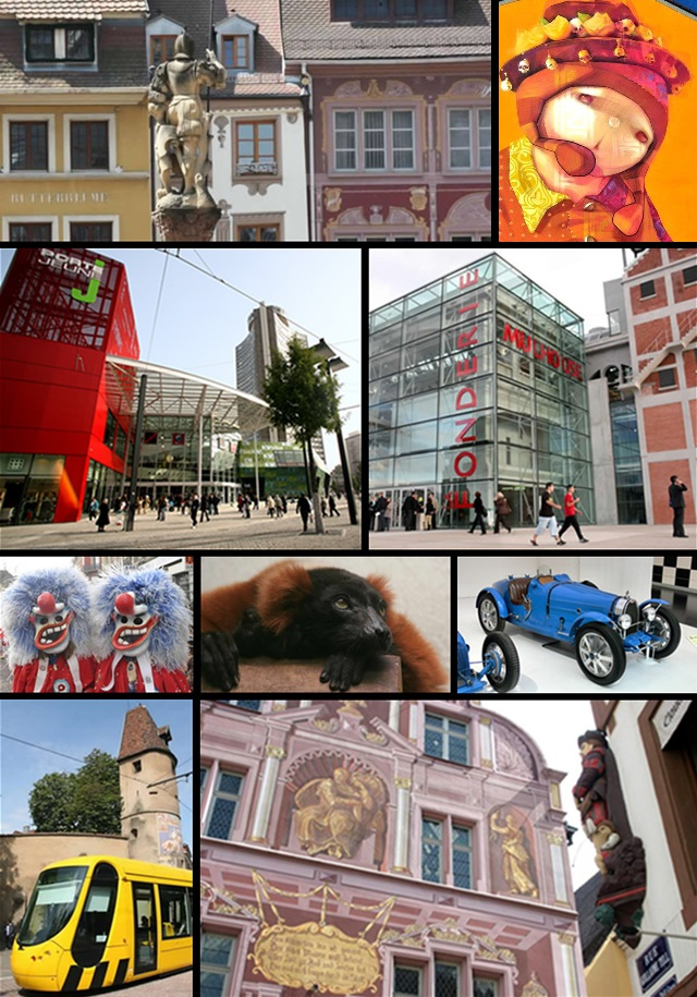 illustrative pics of Mulhouse